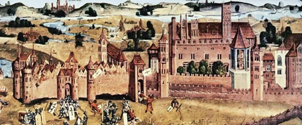 Malbrok